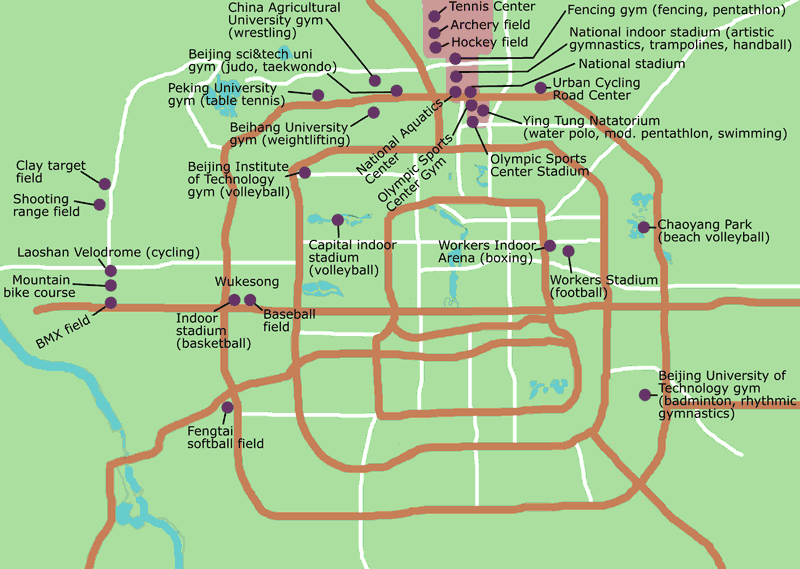 Olympic venues in Beijing for the 2008 olympics.